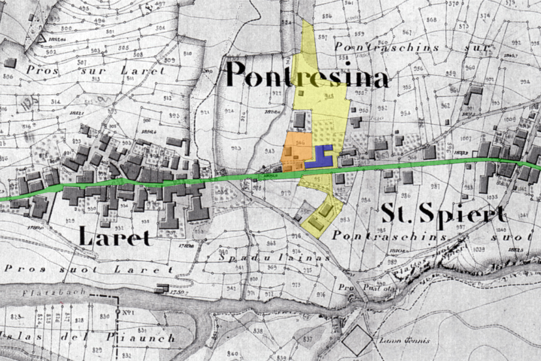 Pontresina, Hotel Pontresina situation plan